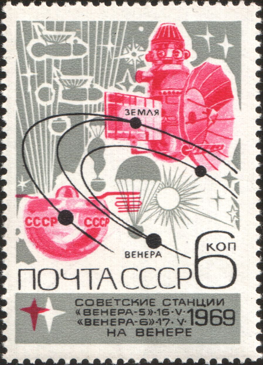 USSR stampː Space Probe, Space Capsule and Orbits. Seriesː Space Exploration